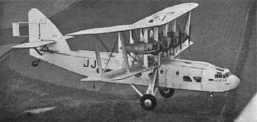 Short L.17 "Scylla" (G-ACJJ), 1934. This plane was the first of two build in the 1930s, the other one being "Syrinx" (G-ACJK).